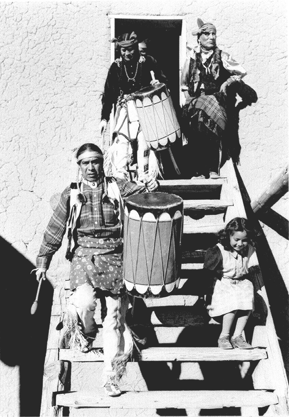 Ansel Adams, 1942, 79-AAP-2 "Dance, San Ildefonso Pueblo, New Mexico, 1942," two Indians descending wooden stairs, carrying drums; another Indian and child near by. In 1941 the National Park Service commissioned noted photographer Ansel Adams to create a photo mural for the Department of the Interior Building in Washington, DC. The theme was to be nature as exemplified and protected in the U.S. National Parks. The project was halted because of World War II and never resumed. The holdings of the National Archives Still Picture Branch include 226 photographs taken for this project, most of them signed and captioned by Adams. Almost all are in the public domain. License "The vast majority of the digital images in the Archival Research Catalog (ARC) are in the public domain. Therefore, no written permission is required to use them. We would appreciate your crediting the National Archives and Records Administration as the original source. For the few images that remain copyrighted, please read the instructions noted in the "Access Restrictions" field of each ARC record." This image is Public Domain